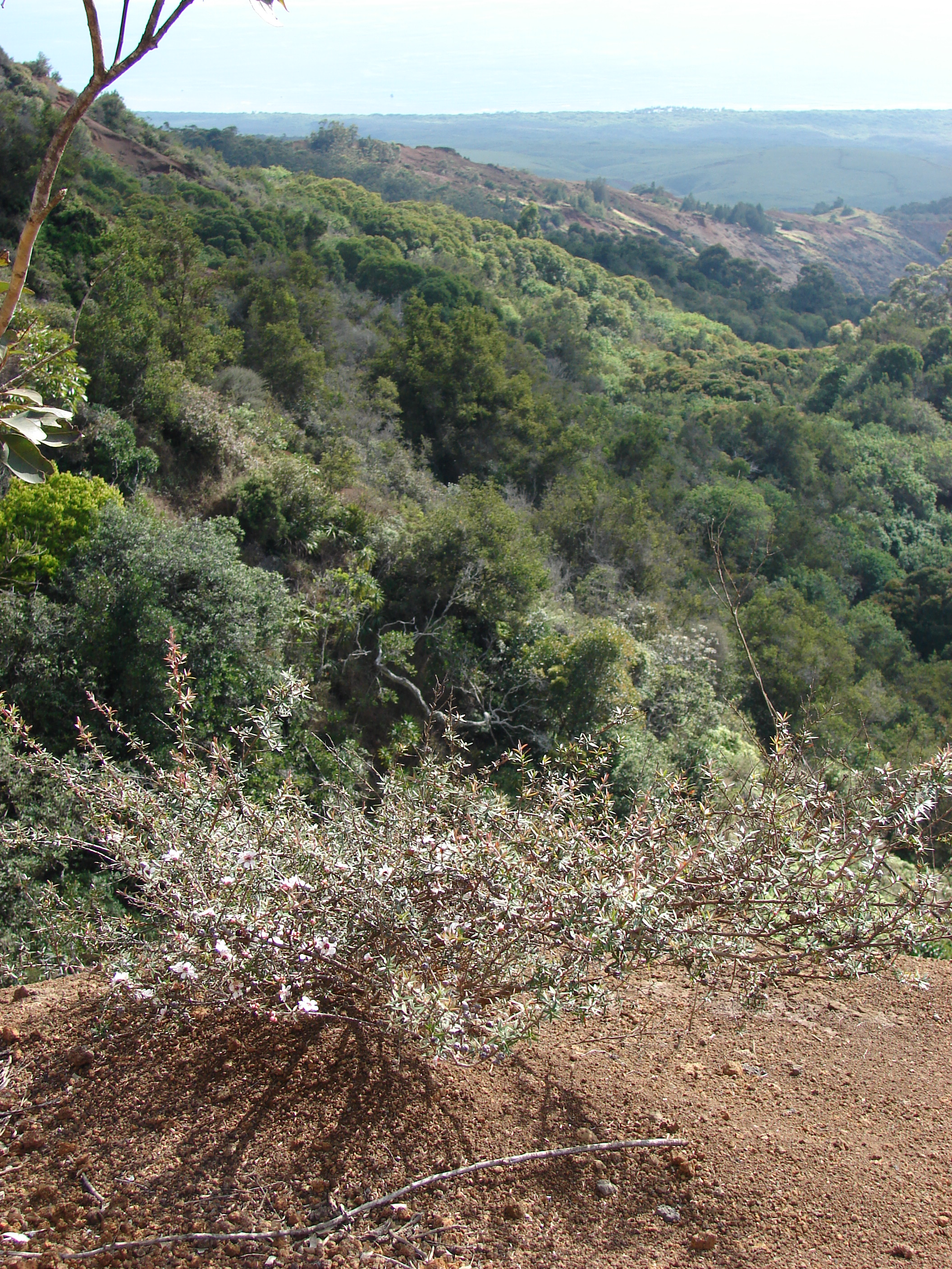 Leptospermum scoparium (habitat). Location: Lanai, Munro Trail